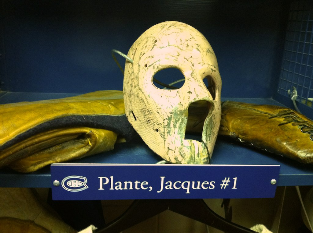 Jacques Plante goalie mask, Hockey hall of Fame